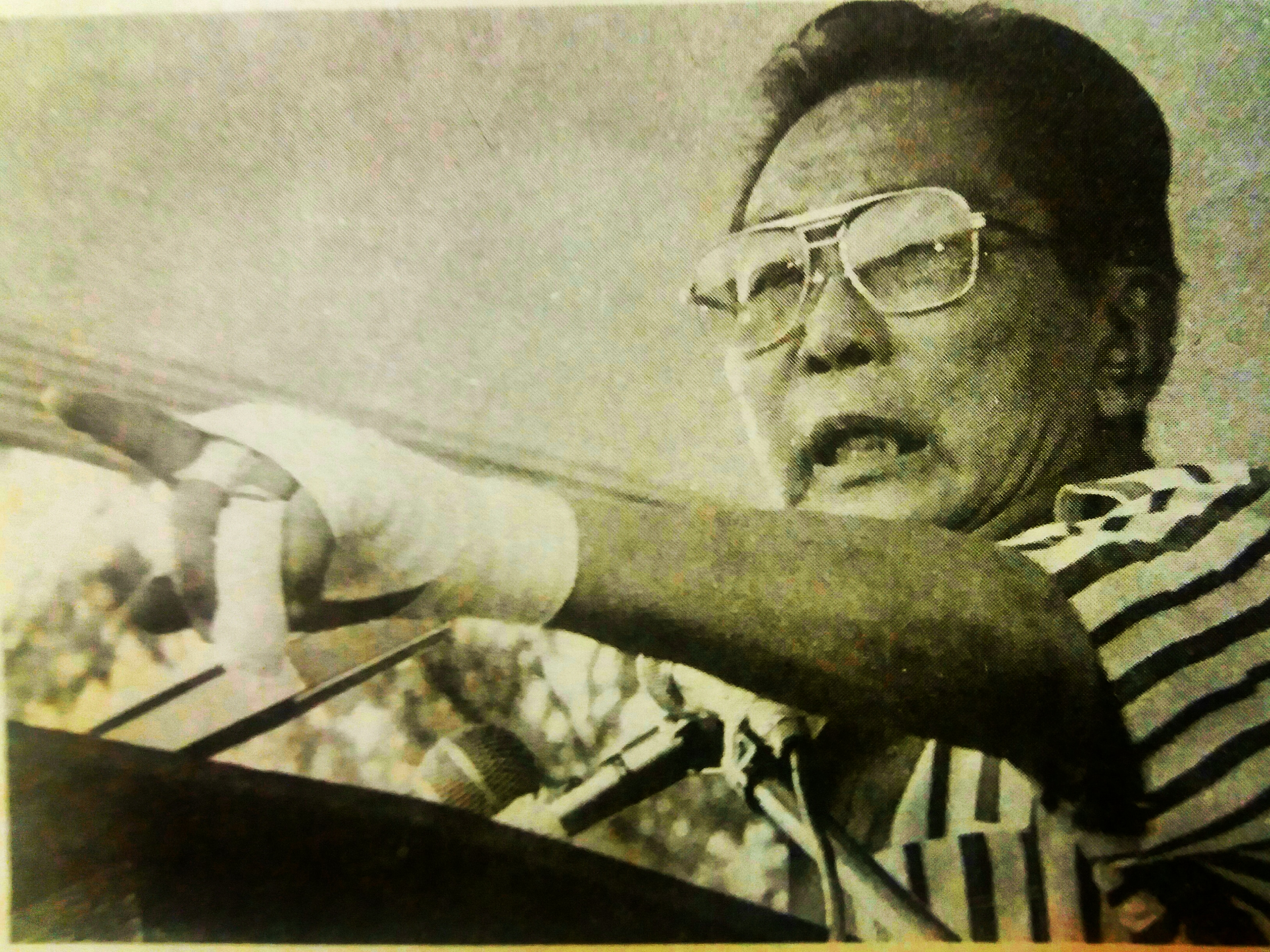 Ailing Ferdinand Marcos during the campaign for the 1986 Snap elections